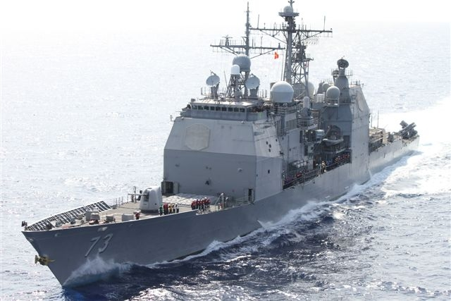 SOUTH CHINA SEA (Jan. 27, 2017) The Ticonderoga-class guided-missile cruiser USS Port Royal (CG 73) approaches Dry Cargo and Ammunition Ship USNS Washington Chambers (T-AKE 11) while underway in the South China Sea. Port Royal is forward-deployed to the U.S. 7th Fleet area of operations in support of security and stability in the Indo-Asia-Pacific region. (U.S. Navy photo /Released)170127-N- EM227-003 Join the conversation: navylive.dodlive.mil